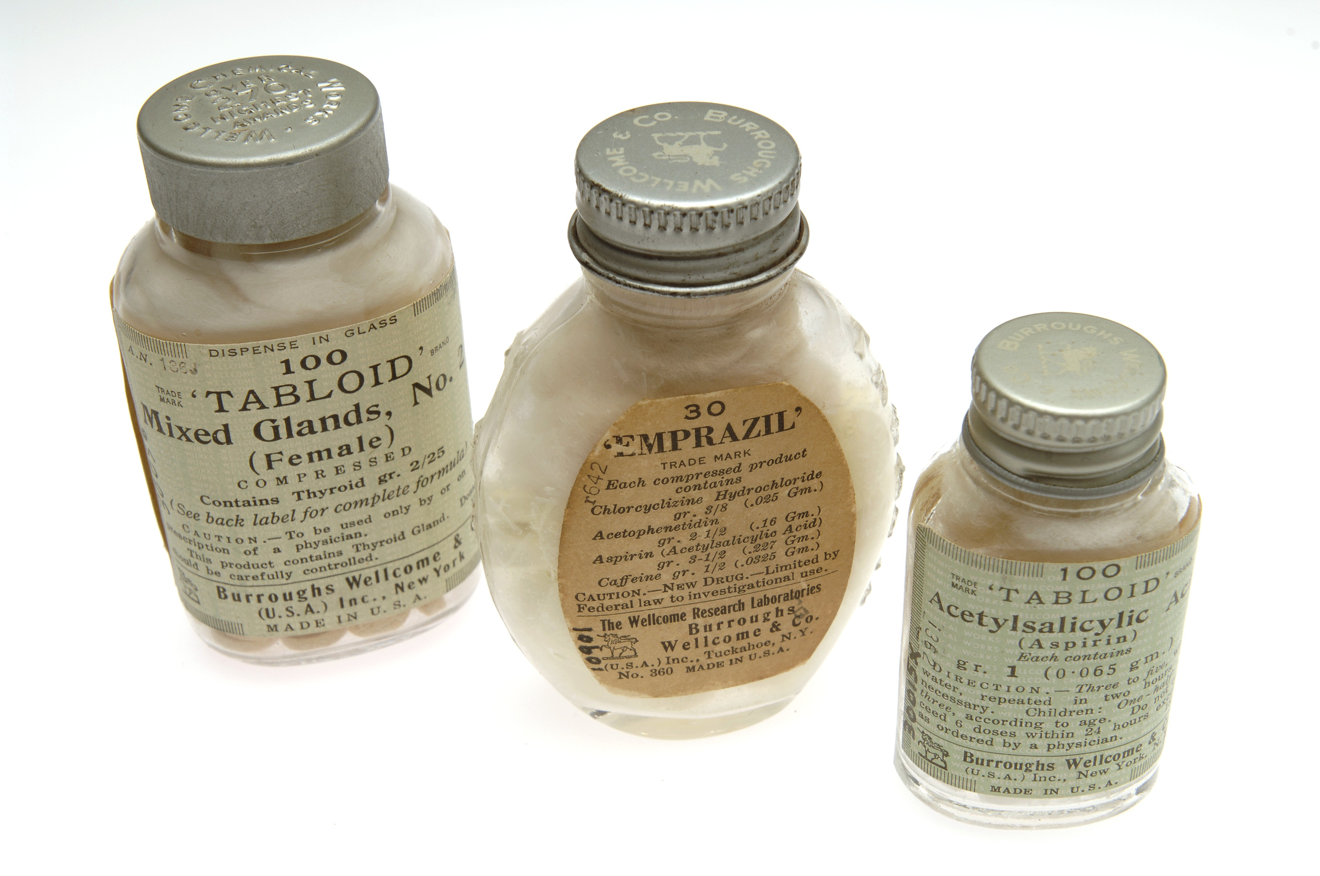 Burroughs Wellcome and Company product: Tabloid Mixed Glands No. 2 tablets, Emprazil tablets and Tabloid Acetylsalicylic Aid tablets [Aspirin] Wellcome Images Keywords: Product; Tablets; Burroughs Wellcome and Company